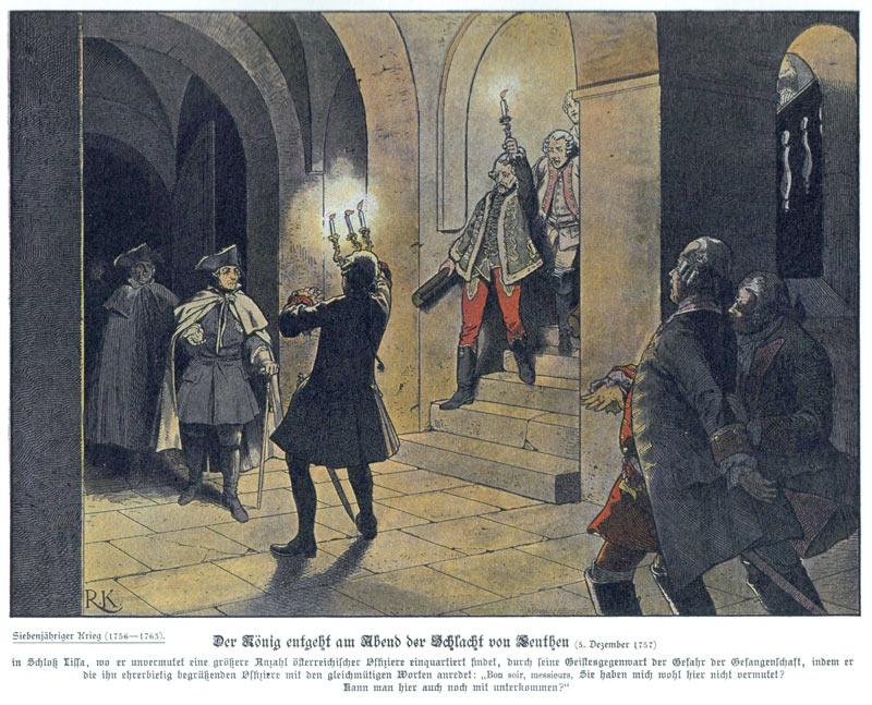 Frederick the Great arriving at the Schloss von Lissa after the Battle of Leuthen by Richard Knötel.